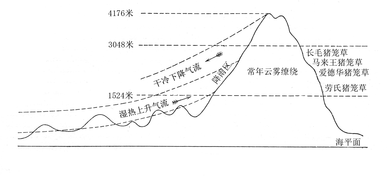 Illustration of hot and cold air currents on Mount Kinabalu in Simplified Chinese